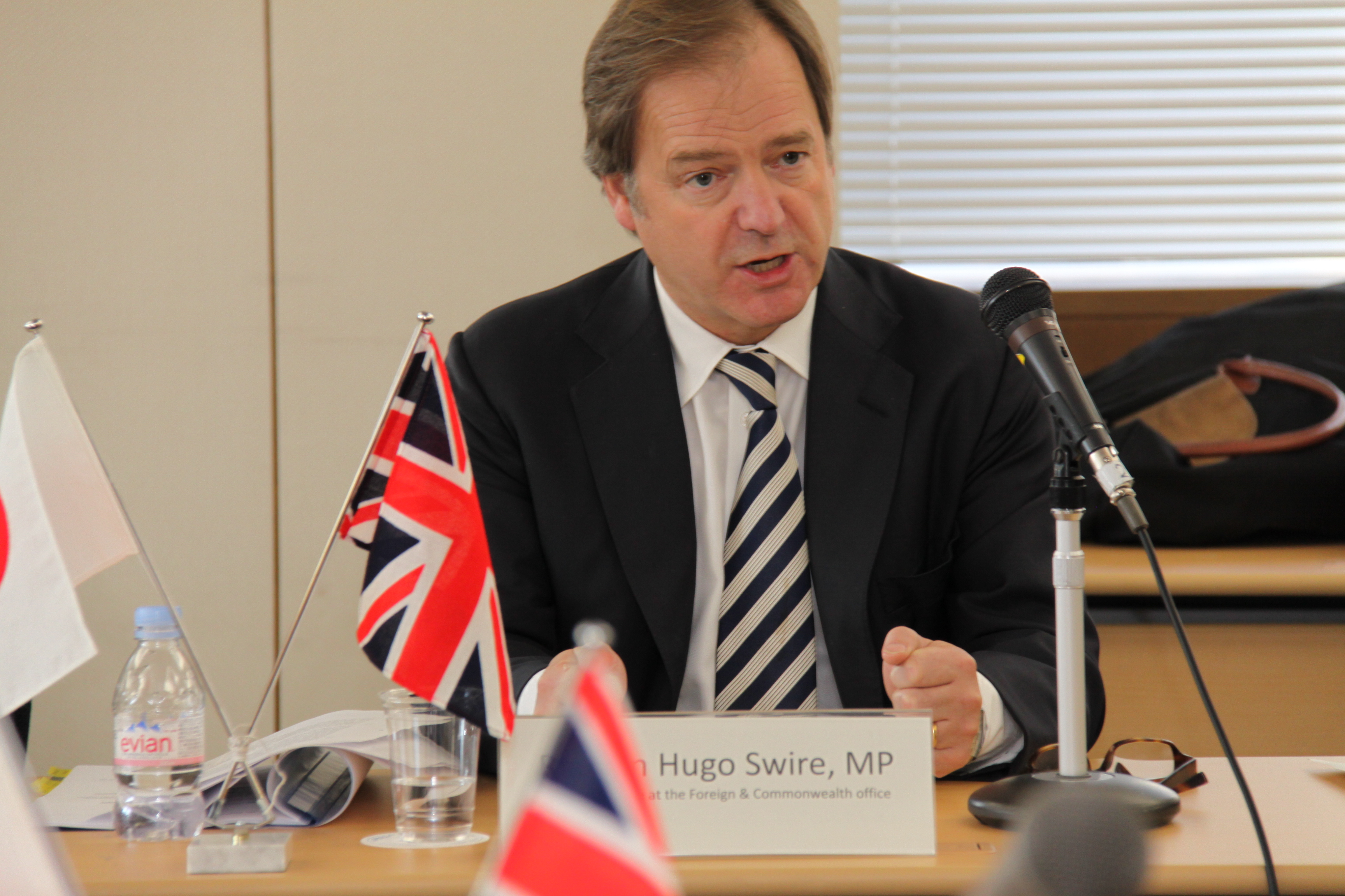 FCO Minister The Rt Hon Hugo Swire opens the 12th UK-Japan Politico-Military Talks